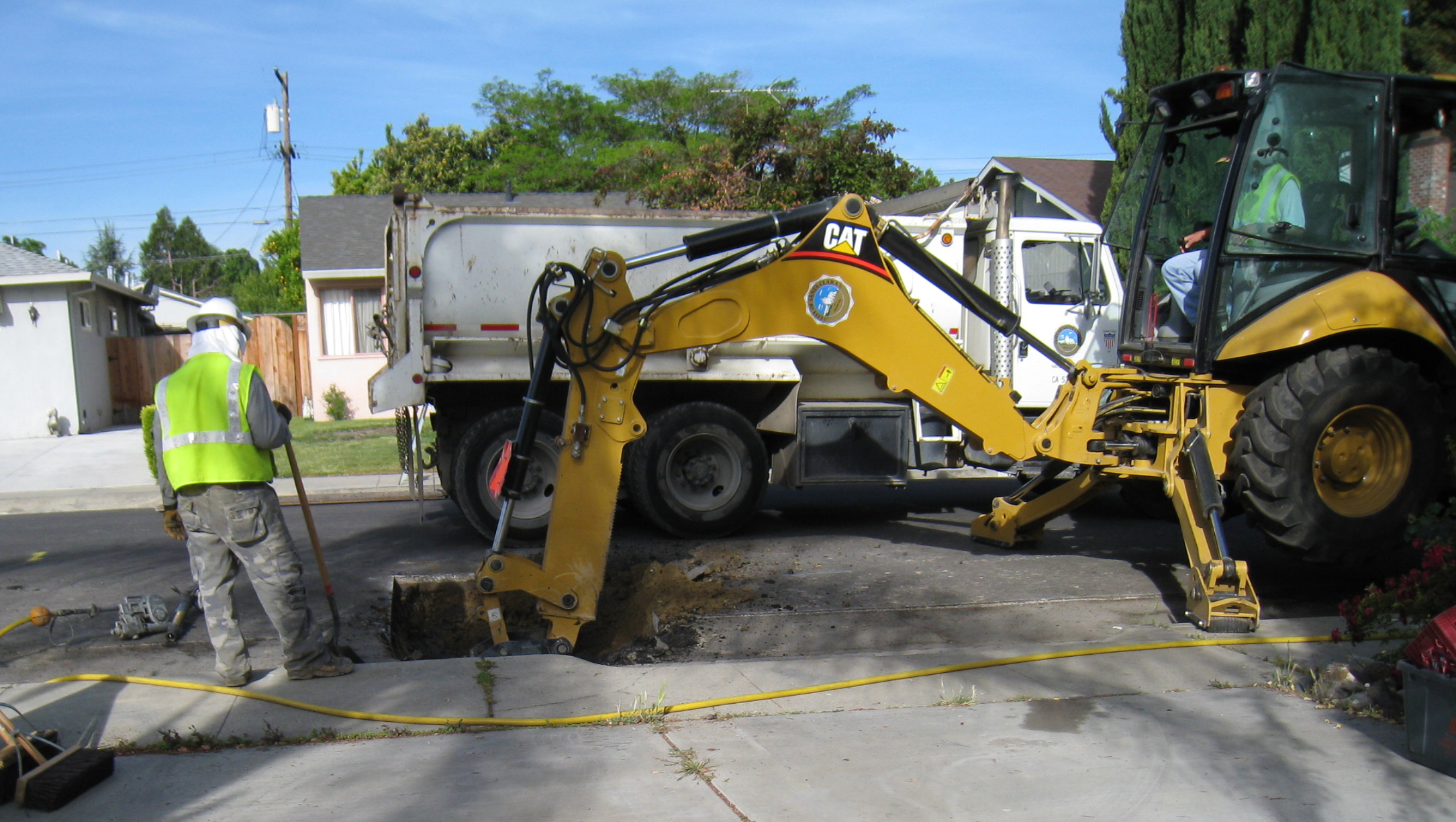 A work crew digs to replace a water line in the street in Santa Clara, California.